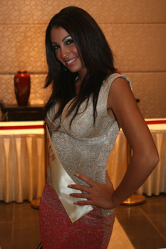 Miss Cyprus 2007 - Dora Anastasiou in Miss World 2007, Sanya, China